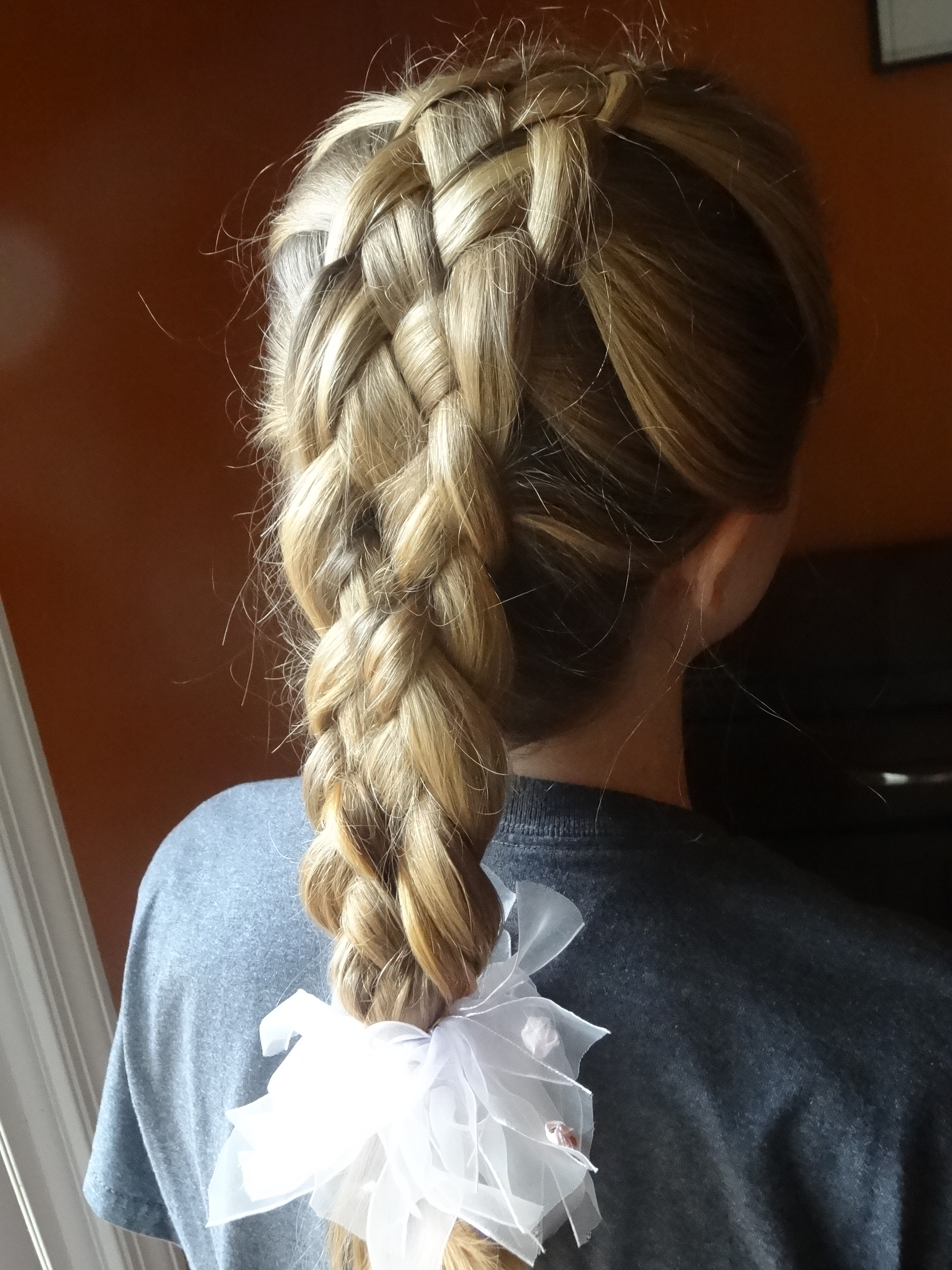 Five stranded french braid (actually dutch technique), ending in a five stranded braid.